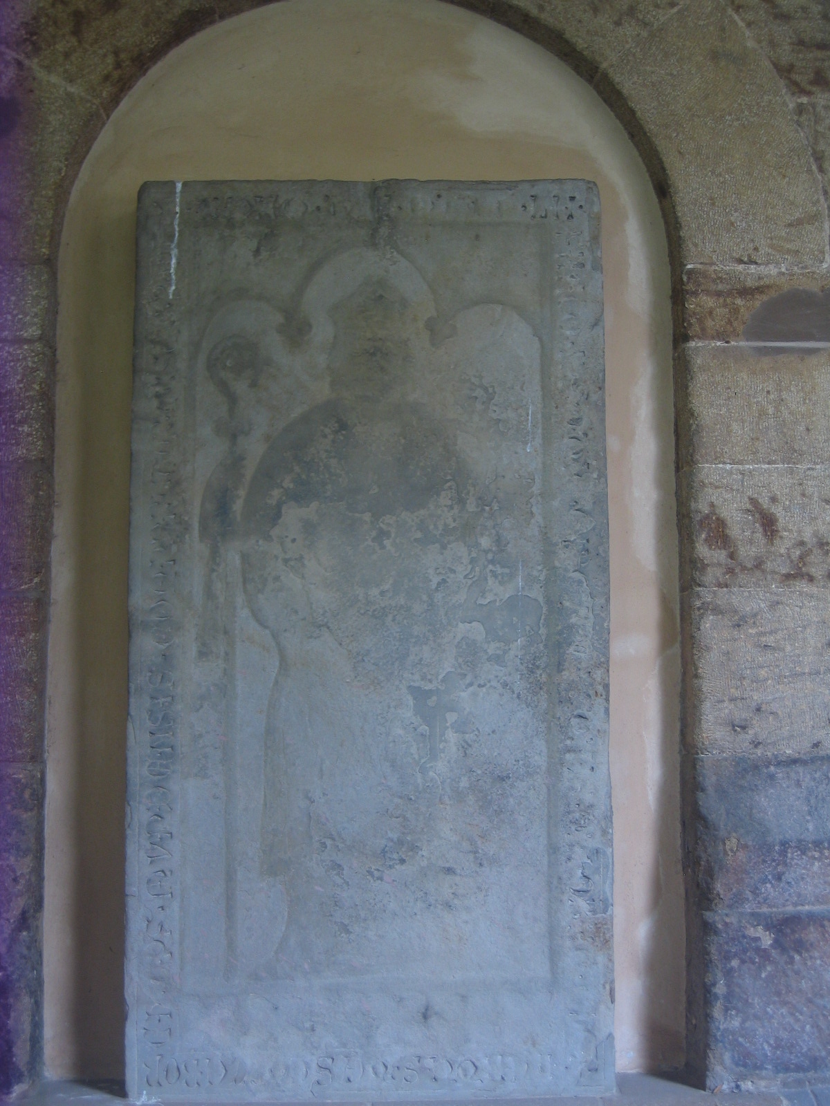 Cathedral in Minden, District of Minden-Lübbecke, North Rhine-Westphalia, Germany.